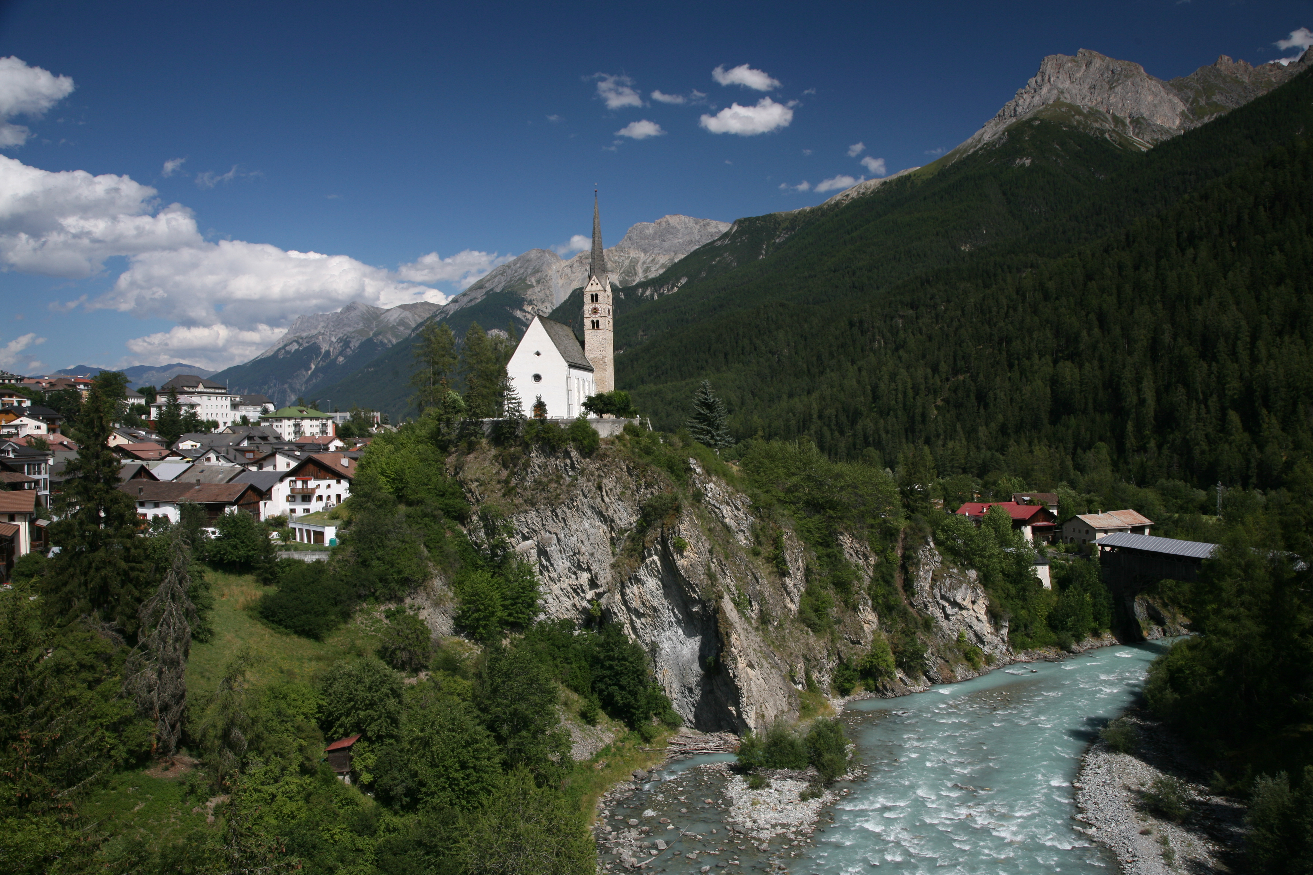 Scuol Rumantsch: Scuol en l'Engiadina Bassa, a la riva da l'En.